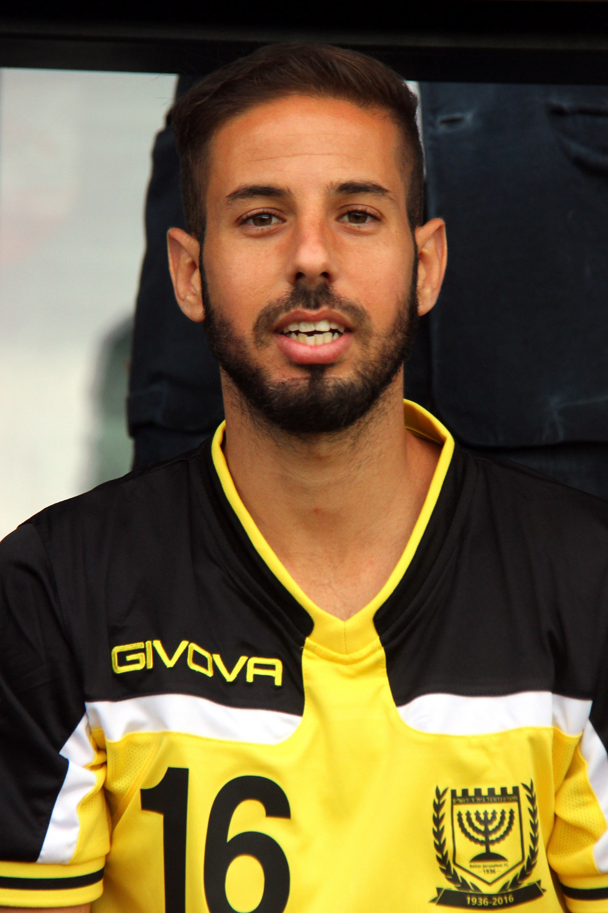 Friendly match between Beitar Jerusalem F.C. (yellow shirts) and MTK Budapest FC (blue shirts) at 2016-06-18 in Bad Erlach (Austria. – The photo shows Dovev Gabay, Beitar Jerusalem F.C.